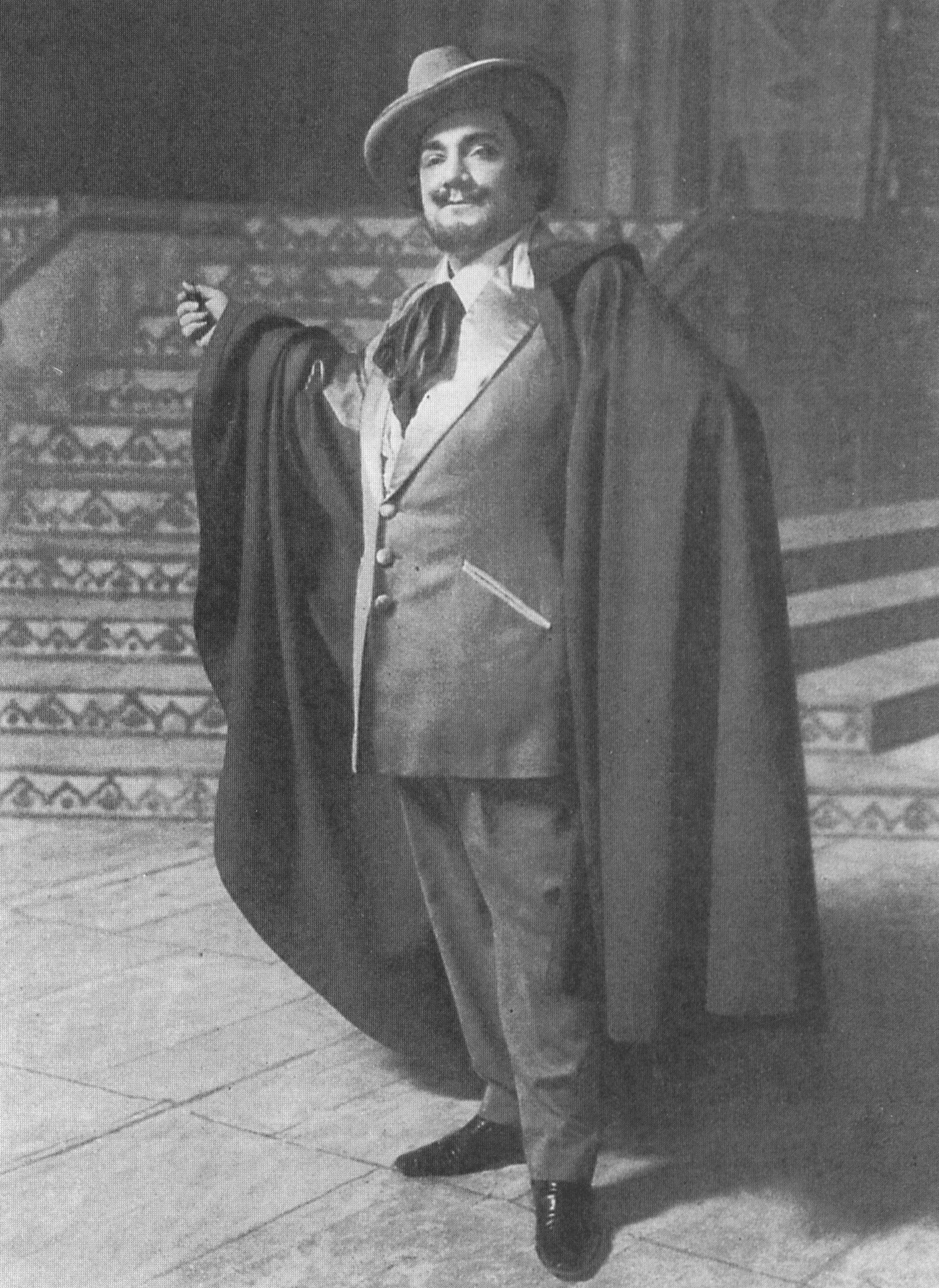 Gustave Charpentier - Louise - Enrico Caruso as Julien - MET 1914